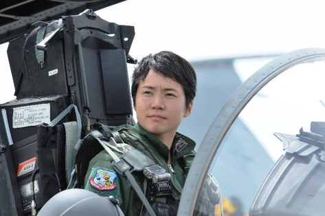 Japan Self Defense Forces pilot Misa Matsushima (松島美紗) seated in cockpit of fighter aircraft.